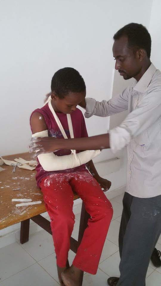 This photo is 13 year old boy with fracture of his right hand and me. This is an image of "African people at work" from Somalia